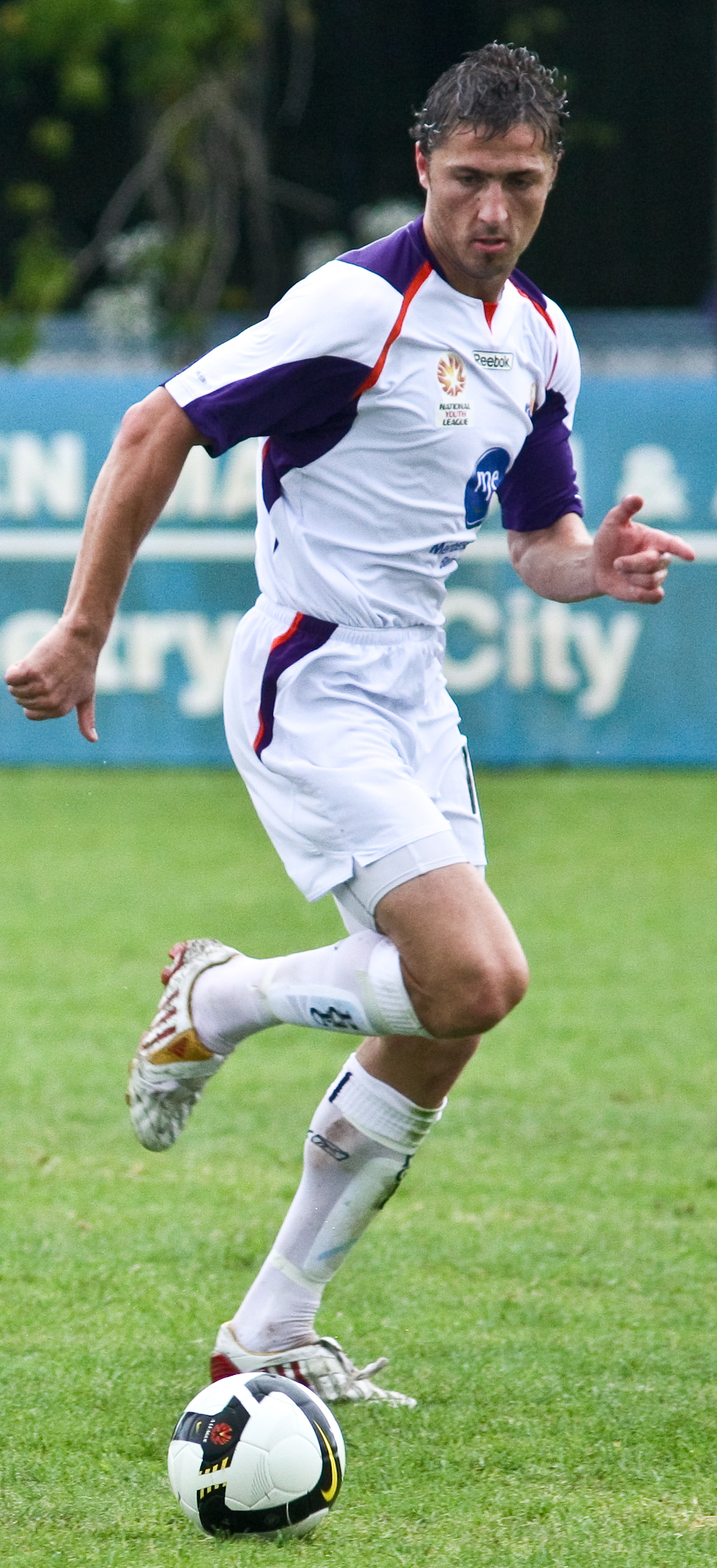 Dino Djulbic playing for Perth Glory Youth against Sydney FC Youth.